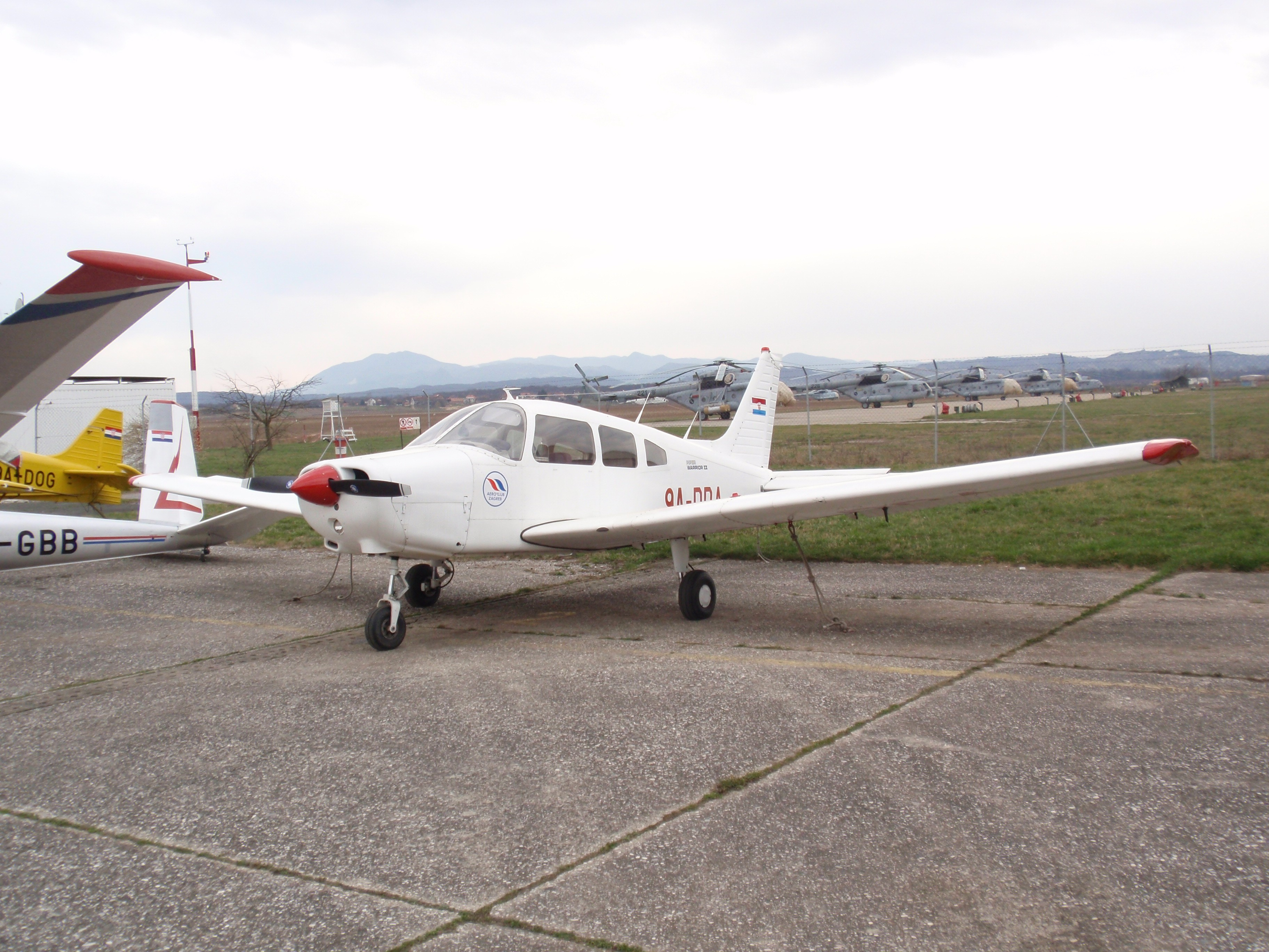 Aeroclub Zagreb: Piper PA-28 Warrior (9A-DDA)